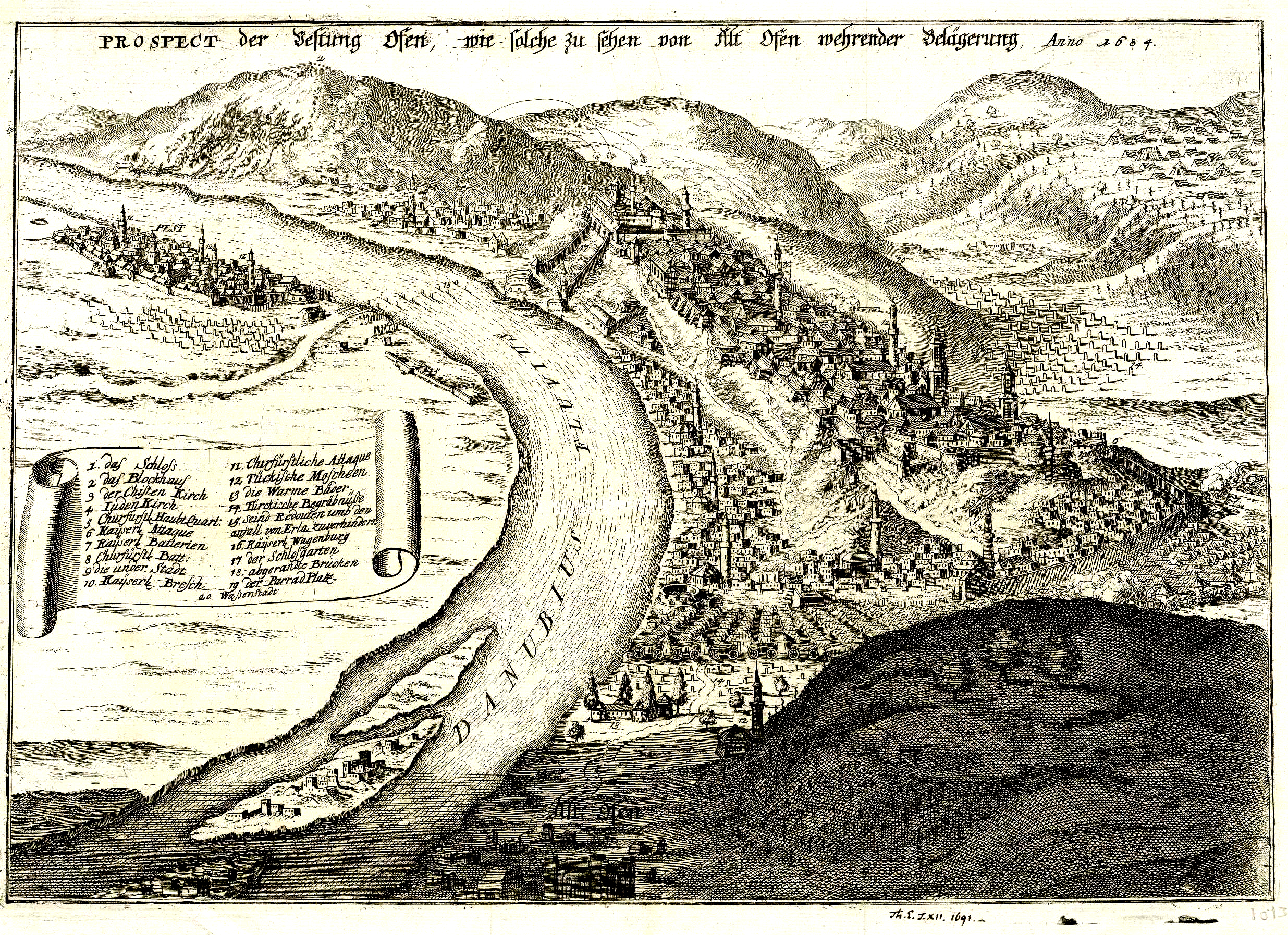 View of the Castle of Buda, of the city of Pest and environs, during the siege of 1684, in: József BÁNLAKY: A MAGYAR NEMZET HADTÖRTÉNELME (Military History of the Hungarian Nation). Year 1684 is marked in the upper right corner.